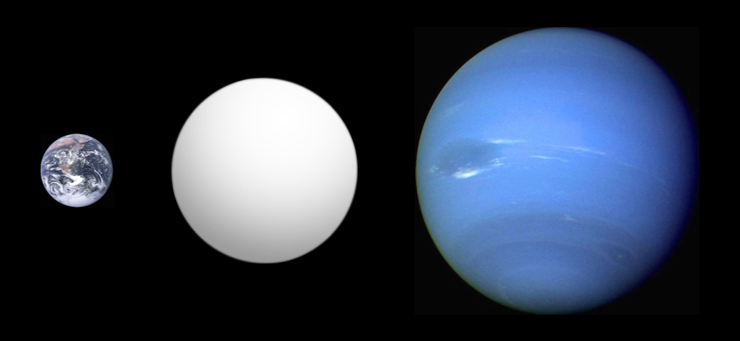 Comparison of best-fit size of the exoplanet Kepler-11 f with the Solar System planets Earth and Neptune, as reported in the Open Exoplanet Catalogue[1] as of 2010-09-30. ↑ Open Exoplanet Catalogue (2010-09-30). Retrieved on 2010-09-30.